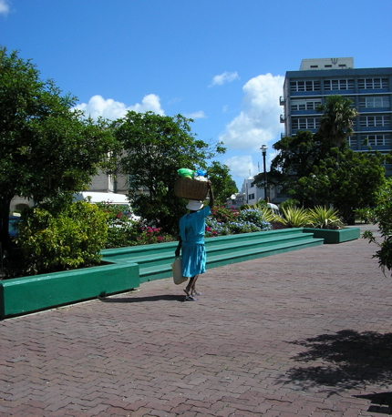 Heroes' Square, formerly Trafalgar Square in Barbados. There are ten official heroes including Samuel Jackman Prescod. When you're driving around the island and you see milestones marking the distance from town, the distance has been measured from this square. This is one of the earliest beautification projects; it's years old now, and I can't even remember what it used to look like before. A lot of free concerts and cultural shows are held here, especially around Independence time. What I especially like about this picture is that I managed to get a shot of the old lady carrying her basket of goods on her head. That sort of thing was fairly common when I was a little girl, but you don't see it around much anymore.